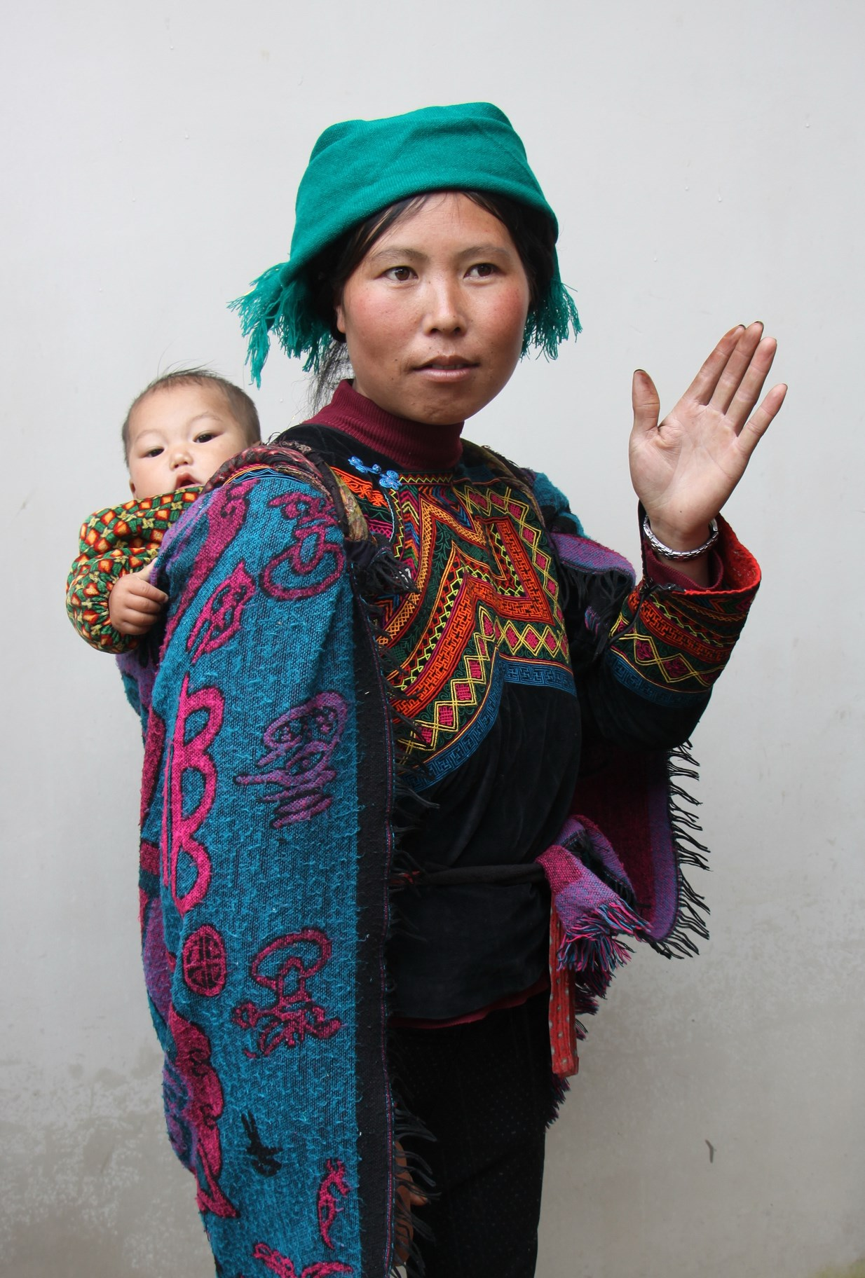 00 Yi minority in traditional